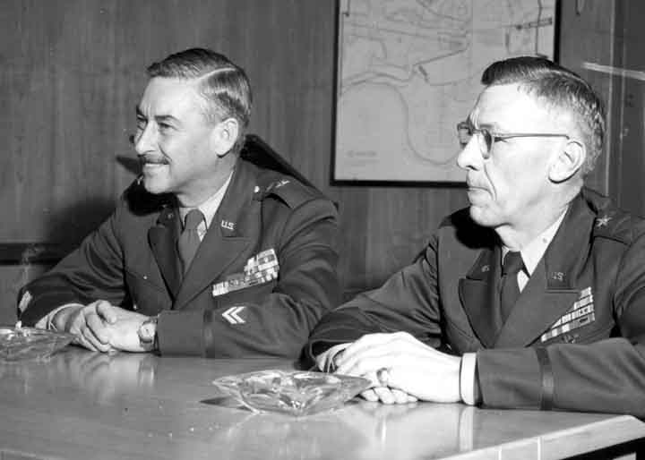 U.S. Army Major Genaral John B. Medaris (left) and Brigadier Genaral Holger N. Toftoy (Right)